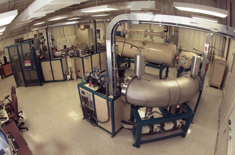 Accelerator mass spectrometer at Lawrence Livermore National Laboratory "The 1 MV accelerator mass spectrometer was (see photo) developed partially under the Resource funding. 14C and tritium analyses of biomedical samples submitted by Resource users are conducted using this 1 MV system. The AMS spectrometer consists of a cesium sputter source, low-energy injection beam line, the high voltage collision cell (accelerator), a high-energy mass spectrometer and a particle detector for energy measurements (proceeding clockwise from lower left in the photograph)."